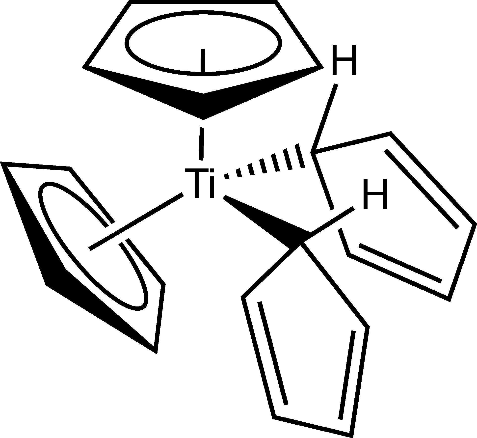 Structure of (η5-Cp)2(η1-Cp)2Ti